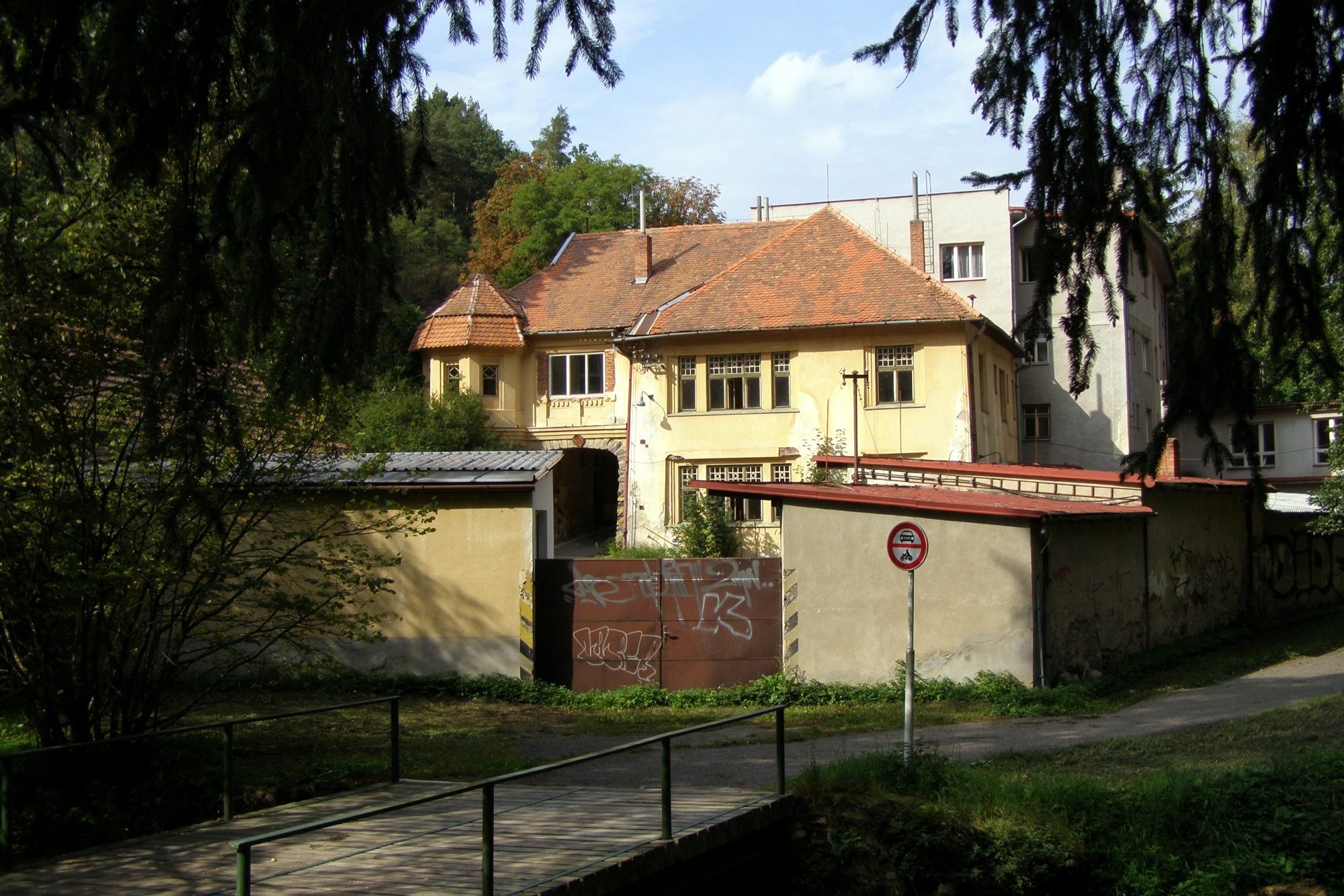 Třebíč-Borovina. John's mill